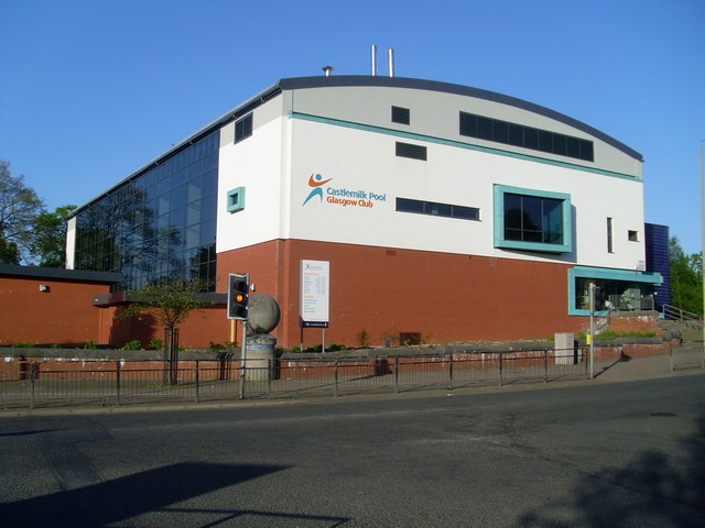 Castlemilk Pool Swimming baths on Castlemilk Drive.